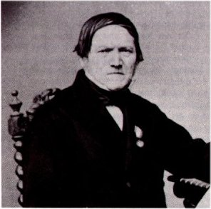 Picture of Wilhelm Amandus Auberlen